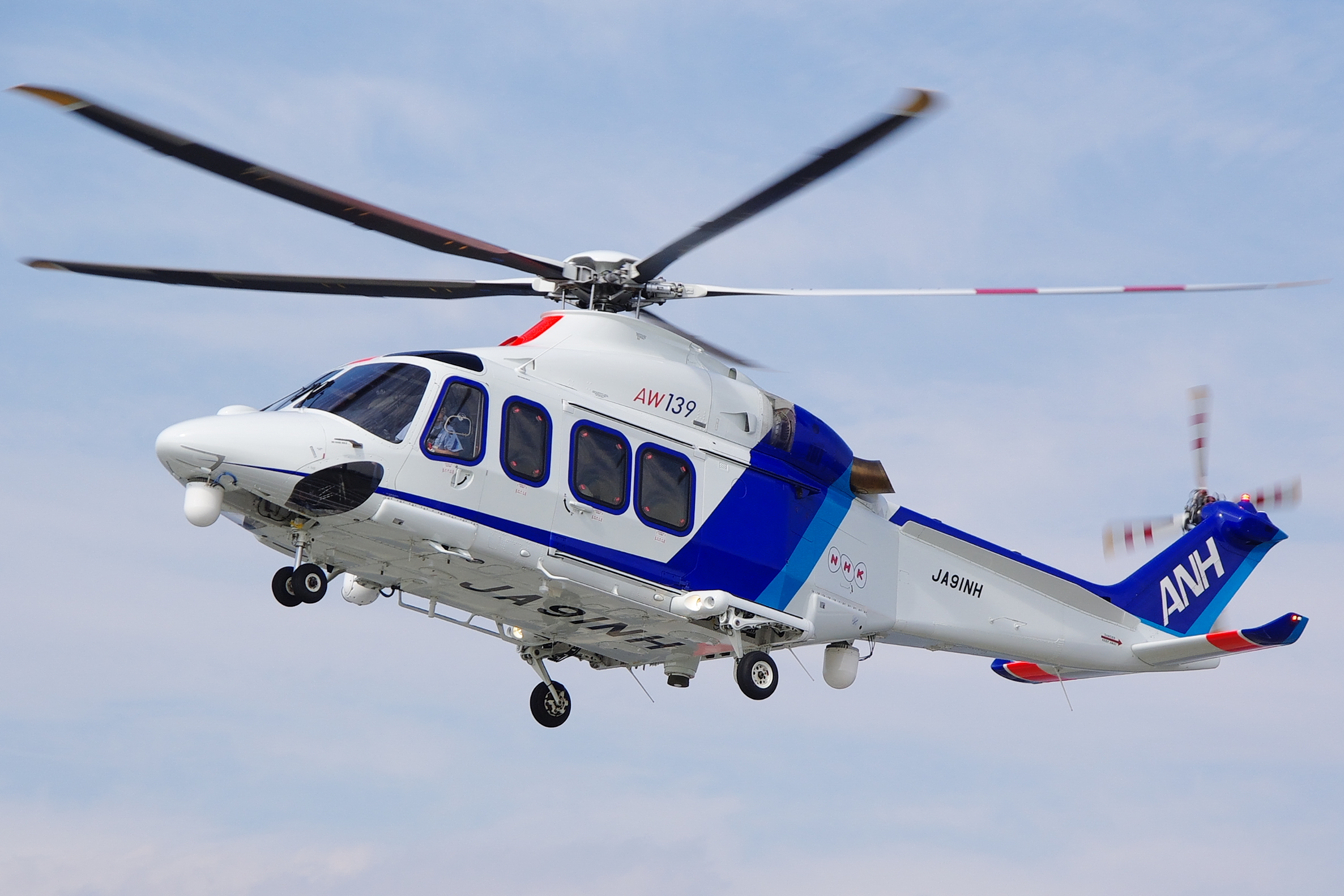 Photograph of AgustaWestland AW139 (JA91NH) operated by All Nippon Helicopter for news gathering of NHK, descending for landing at Maishima Heliport, Konohana-ku, Osaka, Osaka Prefecture, Japan.